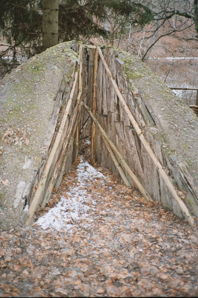 Charcoal-pile in Sauerland, Germany, own photo